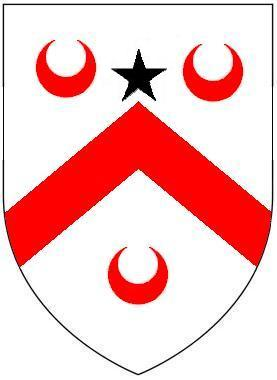 Arms of Pole Baronets of Wolverton, Hampshire: Argent, a chevron between three crescents gules a mullet for difference (Debrett's Peerage, 1968, p.646)